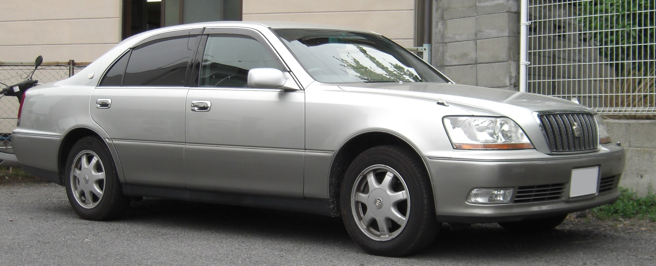 Toyota Crown Majesta